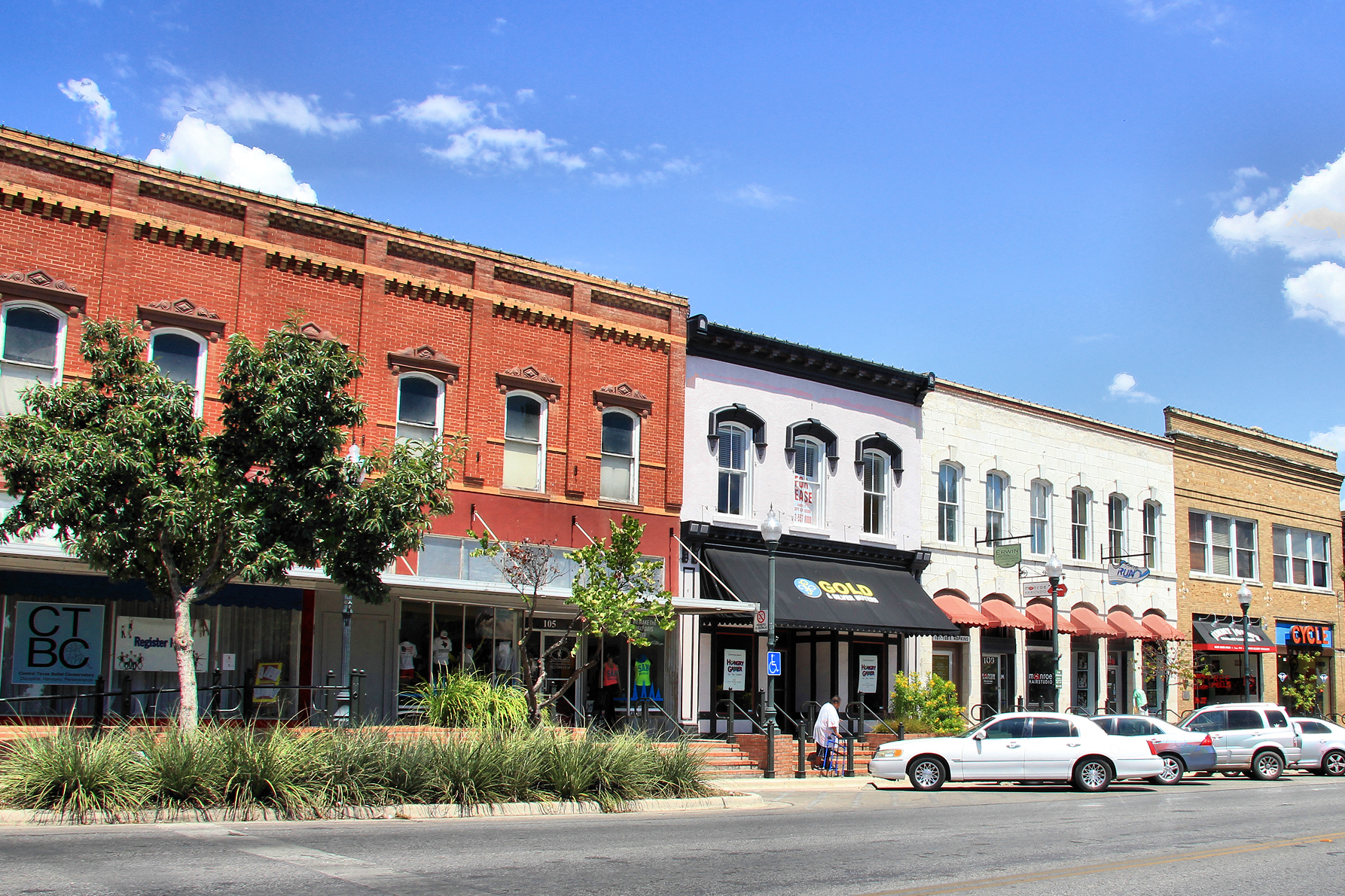 The Hays County Courthouse Historic District in San Marcos, Texas, United States. The district was listed on the National Register of Historic Places on August 26, 1983.